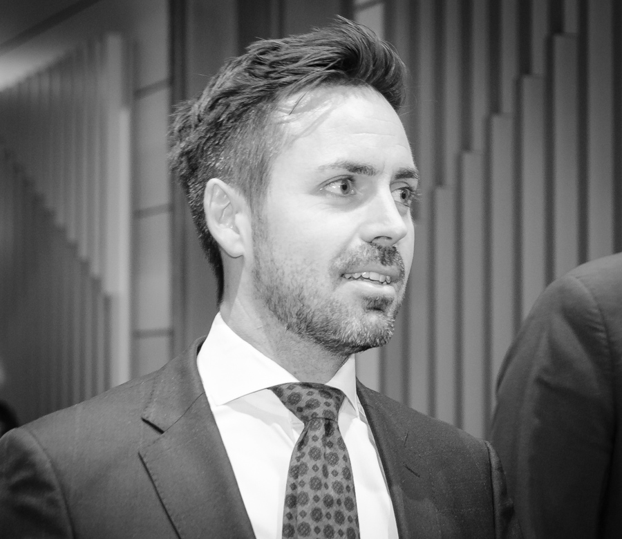 State secretary Petter Kvinge Tvedt at Governor Øystein Olsen's annual address in February 2018